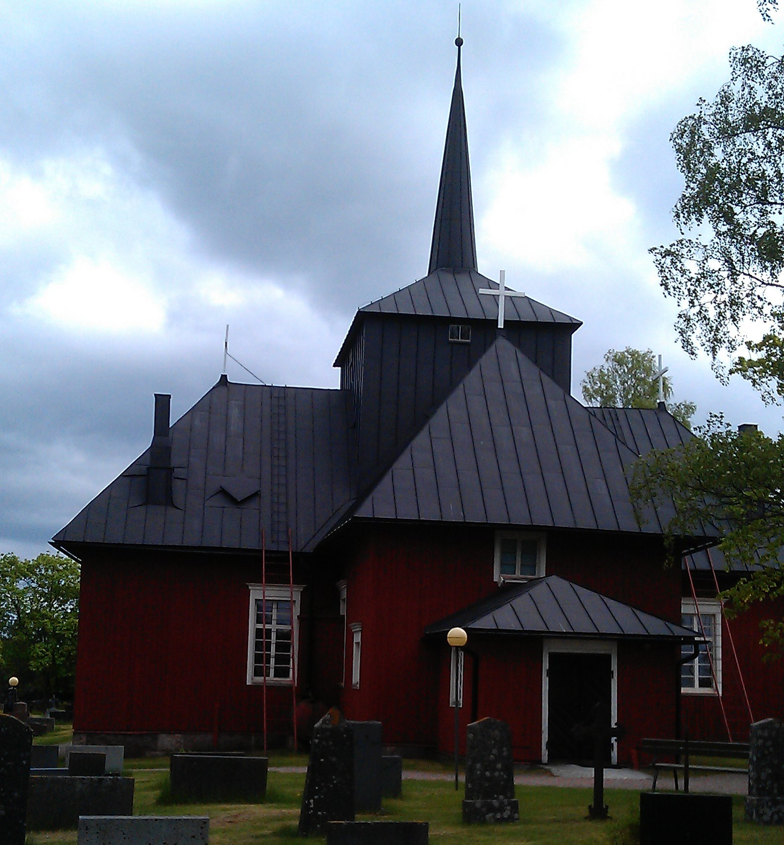 Hitis Church in Kimitoön, Finland.